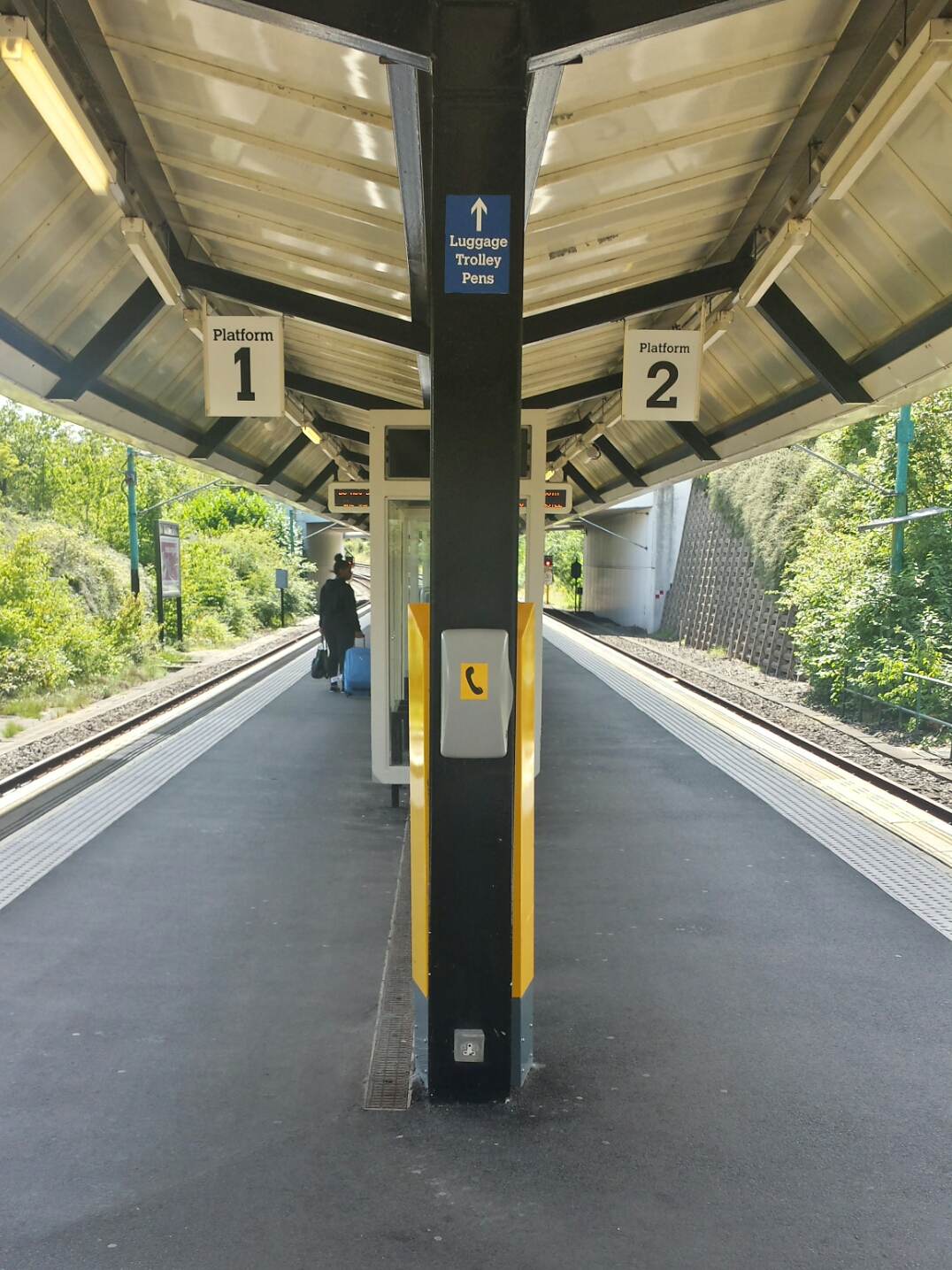 An image of Newcastle Airport Metro station.